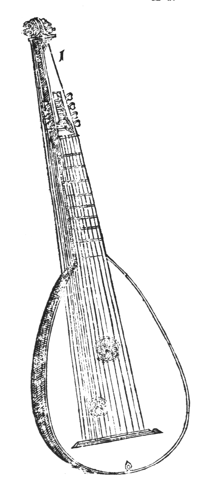 Theorbe